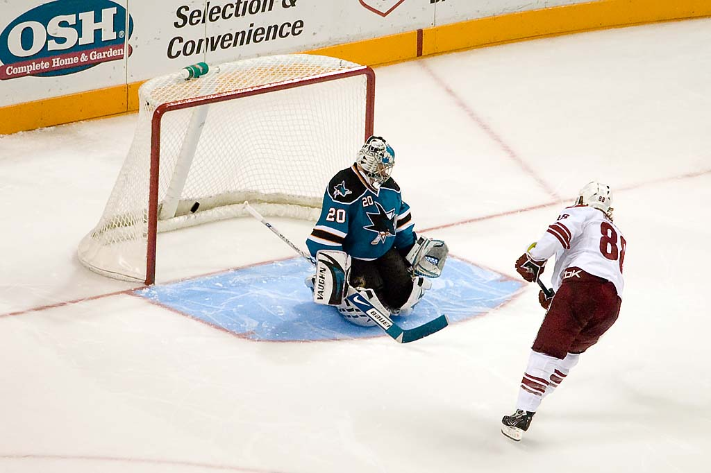 Peter Mueller from the Phoenix Coyotes scores the game winning goal in a shootout against Evgeni Nabokov and the San Jose Sharks.